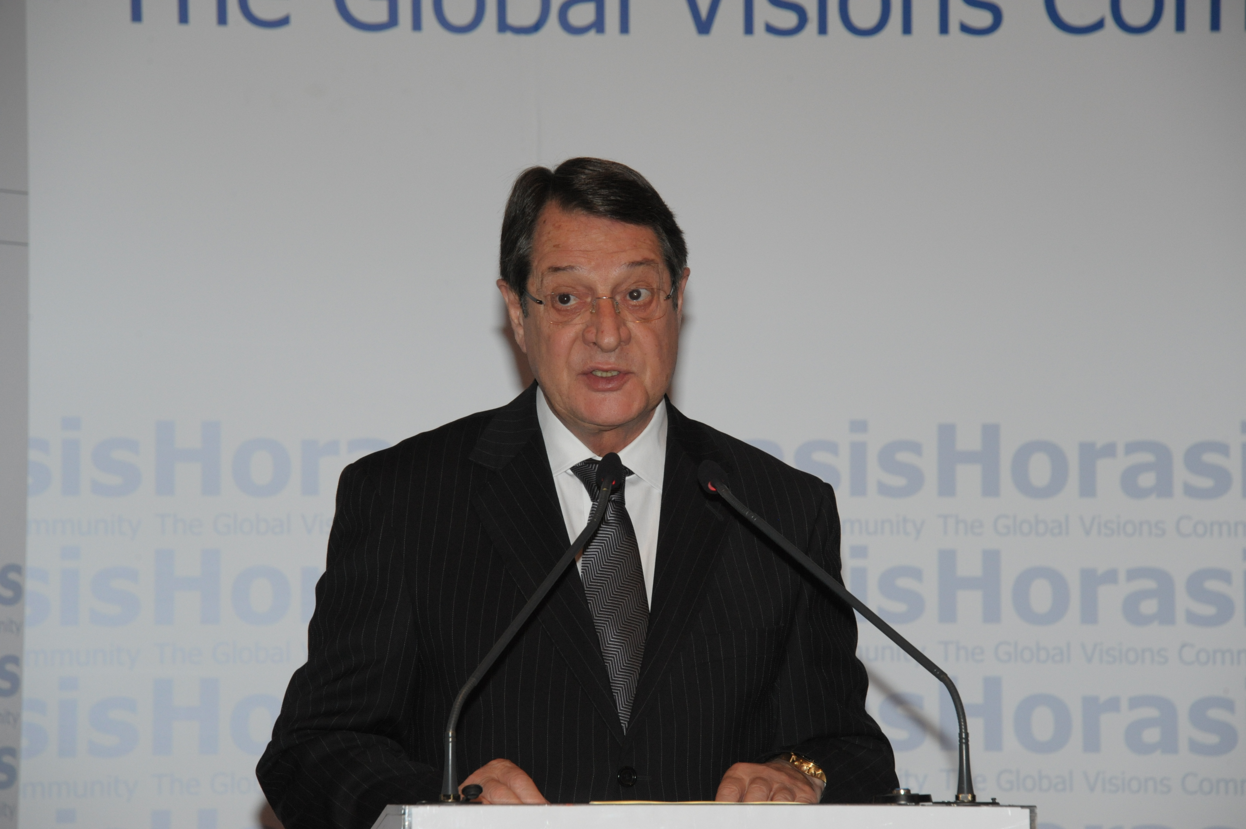 Horasis Global Russia Business Meeting, Limassol, 14-15 April